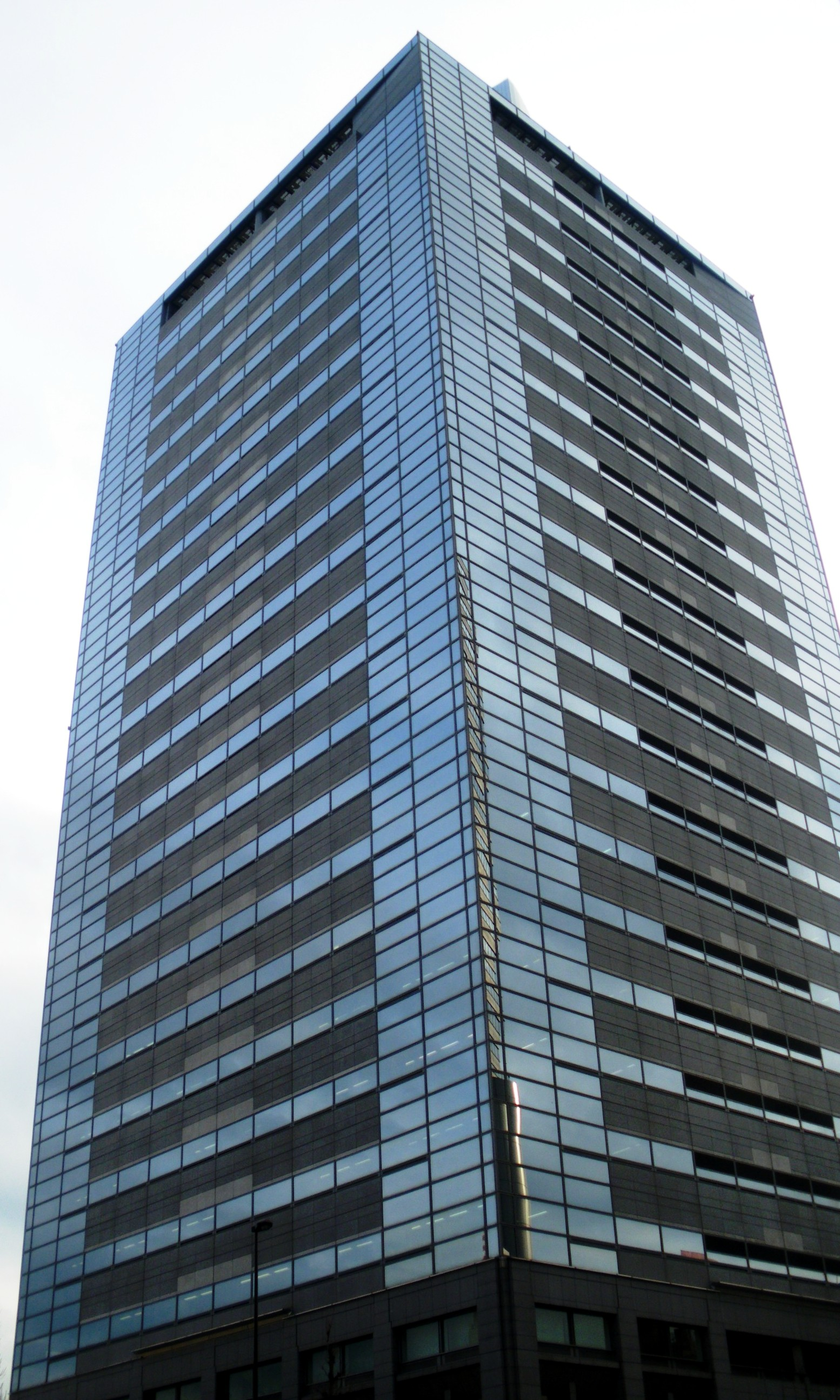 A photo of Aioi Sompo Shinjuku Building, one of the oldest skyscrapers in Yoyogi district, Tokyo. Completed in MArch, 1989 as "Dai Tokyo Kasai Shinjuku Building"